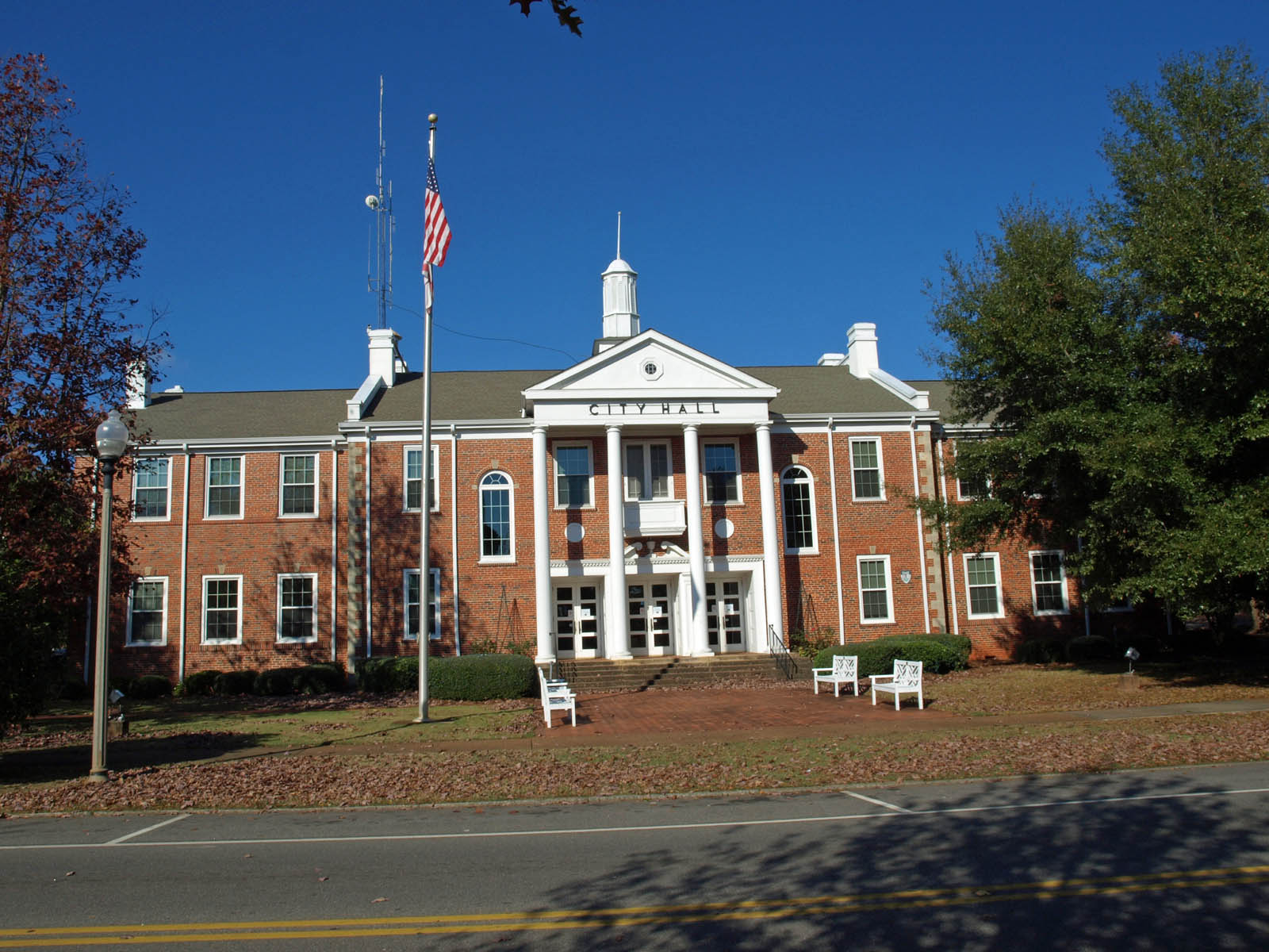 Greenville City Hall in Greenville, Alabama, listed on the National Register of Historic Places